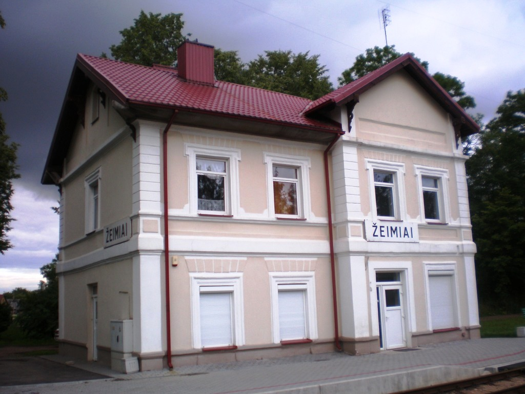 Train station of Žeimiai, Lithuania